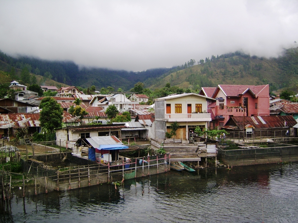 Takengon